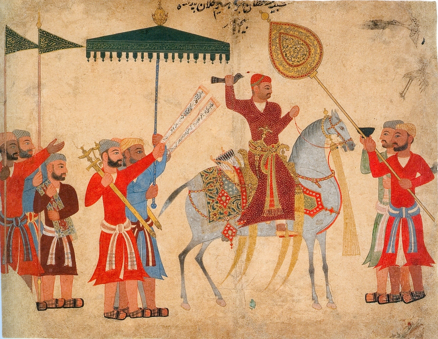 Sultan Husain Nizam Shah I on Horseback, Ahmadnagar ca. 1555, Cincinnati Art Museum